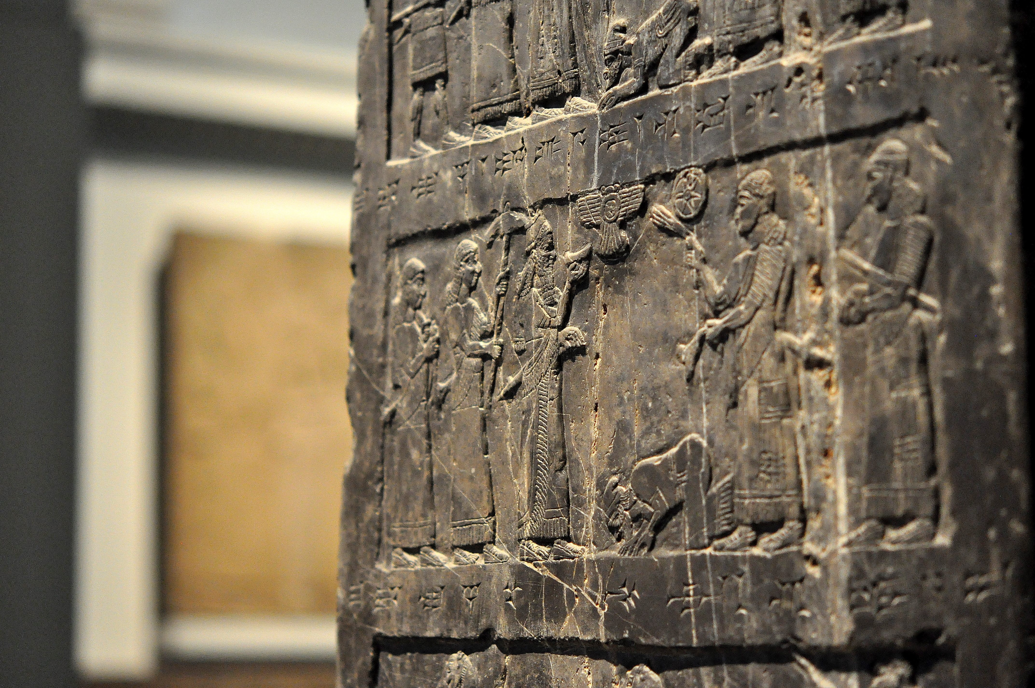 This is the upper 2nd register of side A of the Black Obelisk of Shalmaneser III. Jehu of the House of Omri (Jehu of Bit Omri) prostrates before Shalmaneser III, who is surrounded by his attendants. From Nimrud, northern Mesopotamia (Iraq). Neo-Assyrian period, 825 BCE. The British Museum, London.